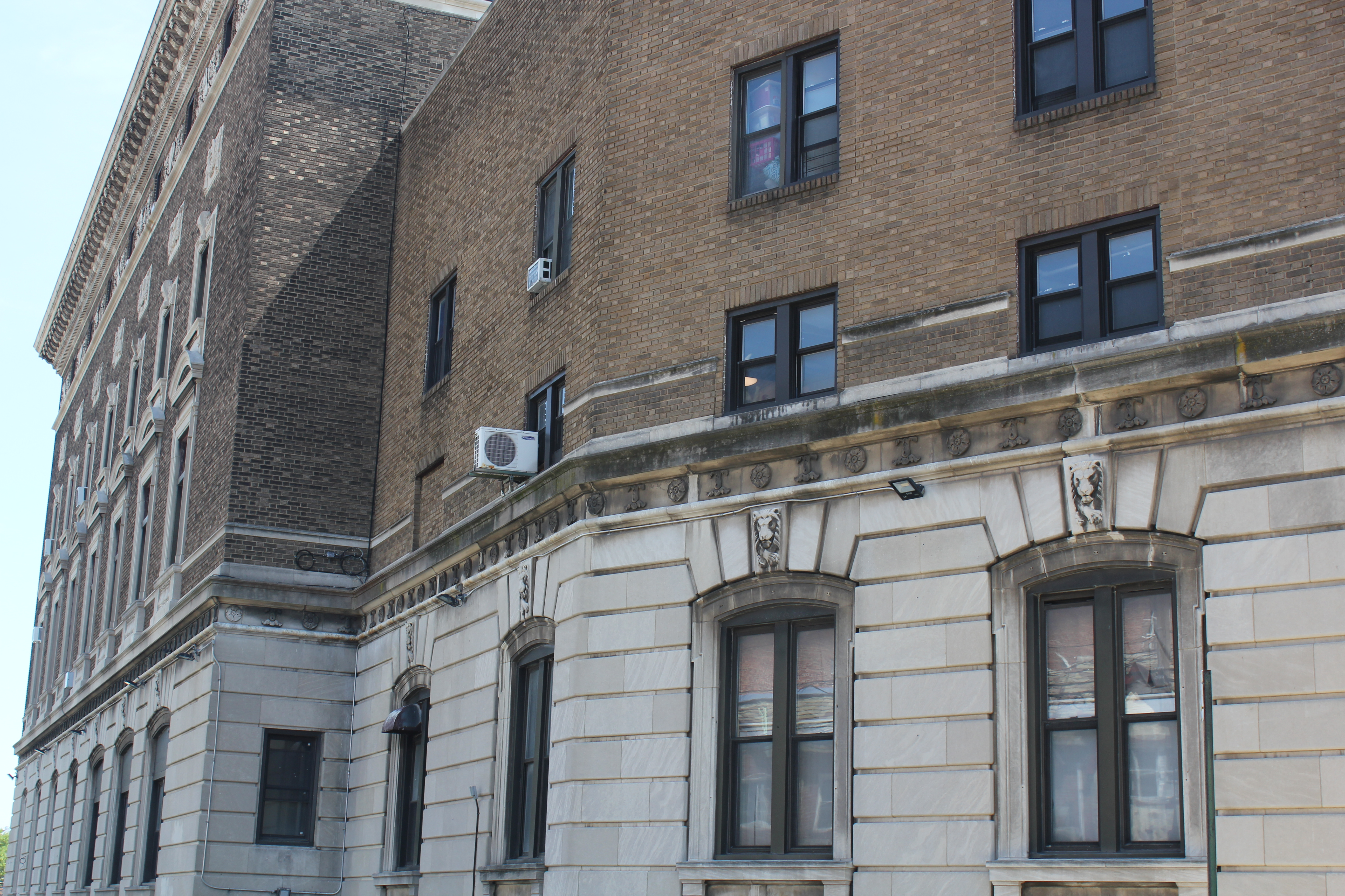 Benevolent and Protective Order of Elks, Lodge Number 878, Elmhurst, Queens, NY in July 2020